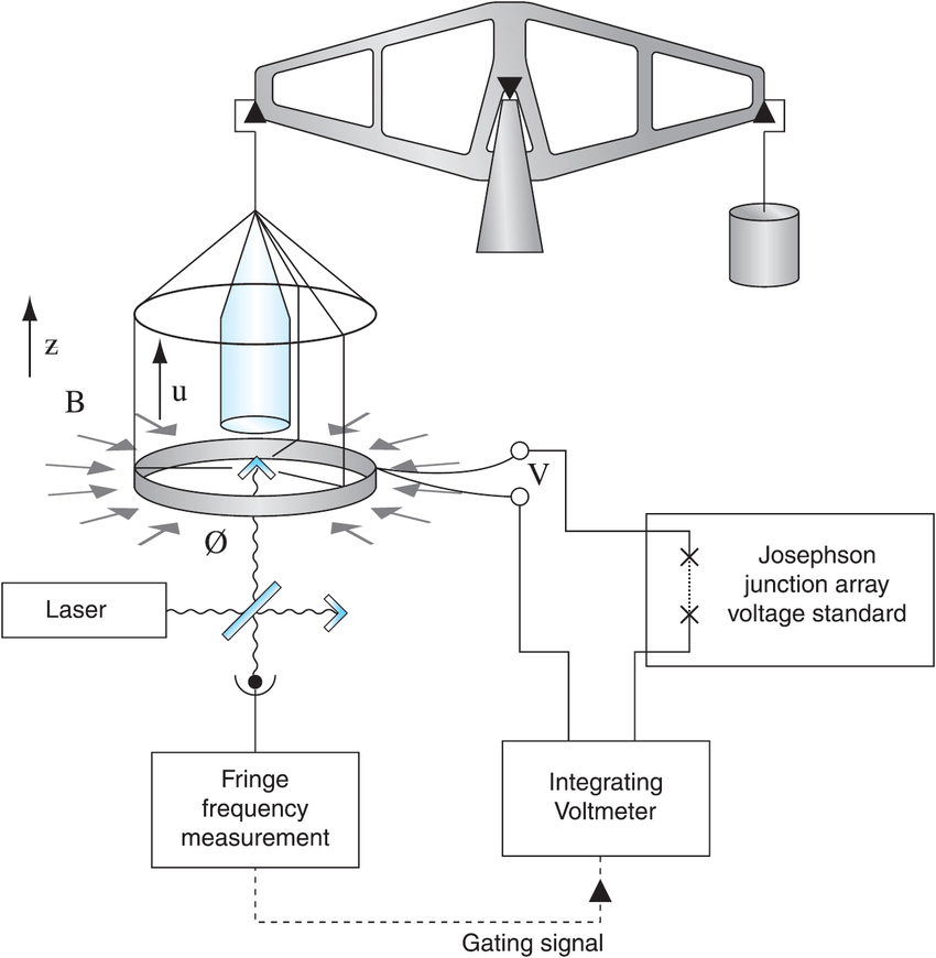 Schematic representation of a kibble balance in moving mode